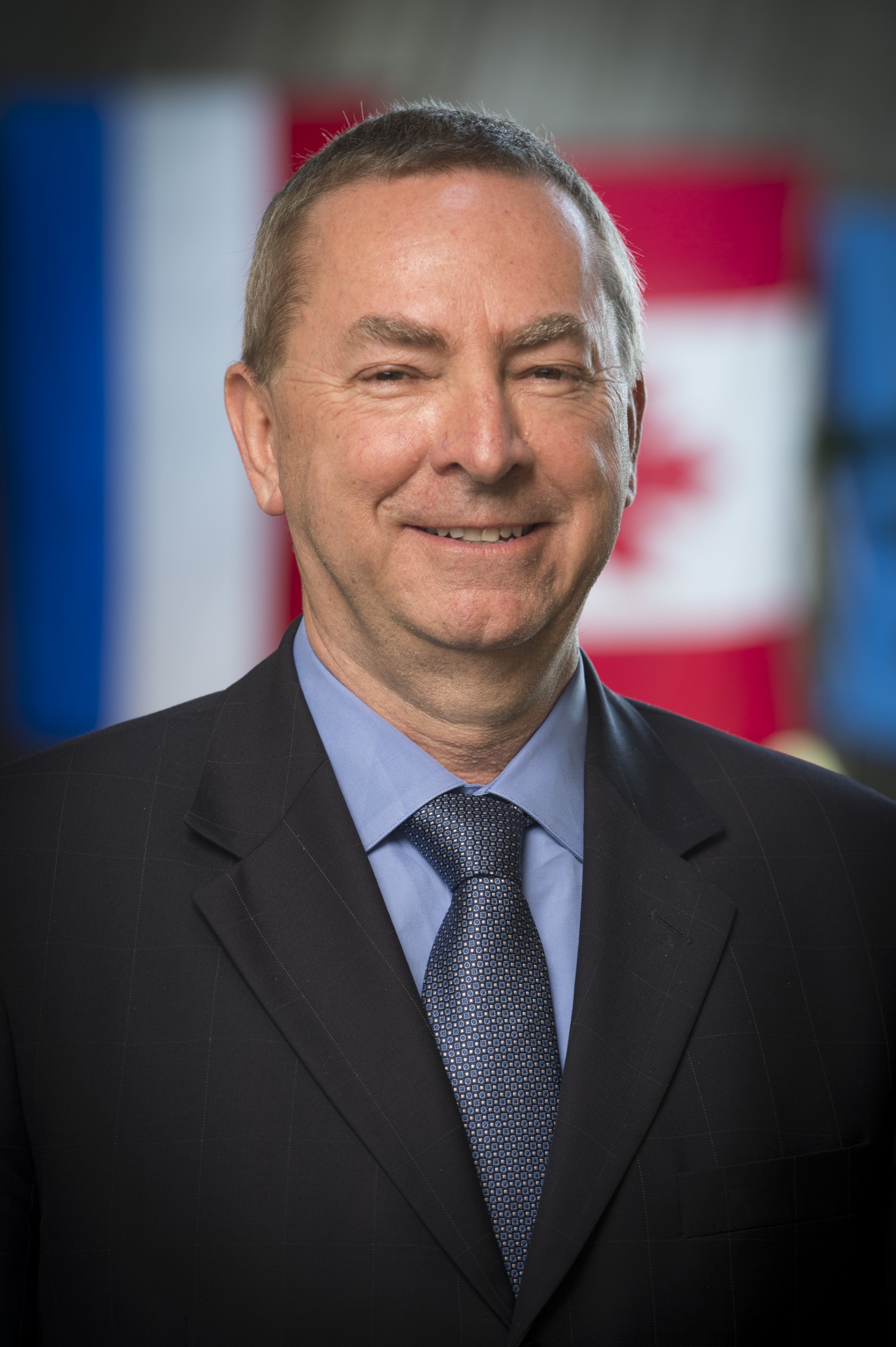 Nigel Lockyer is among the distinguished individuals to receive honorary degrees in 2016 from Simon Fraser University